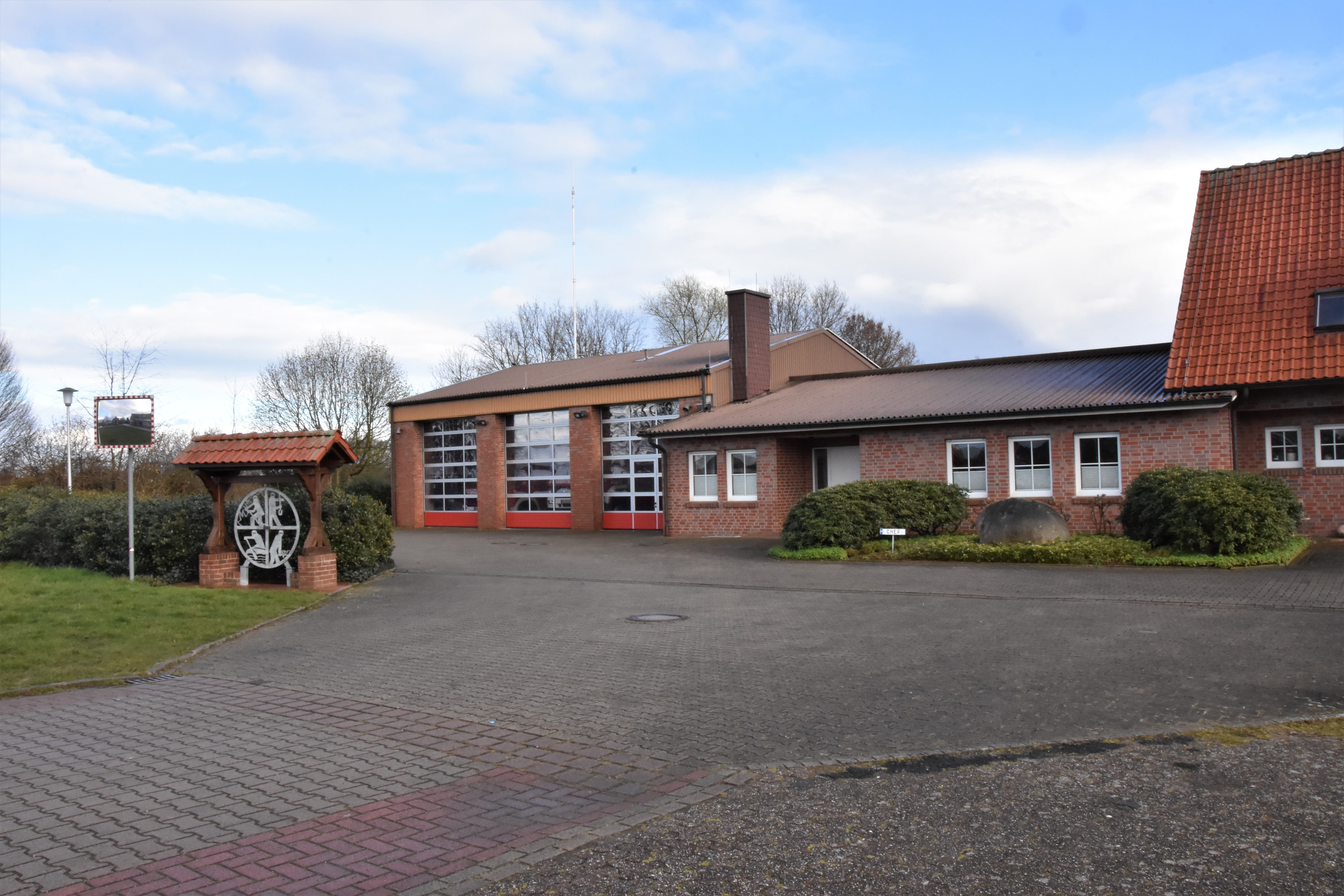 Volunteer fire department Alfhausen